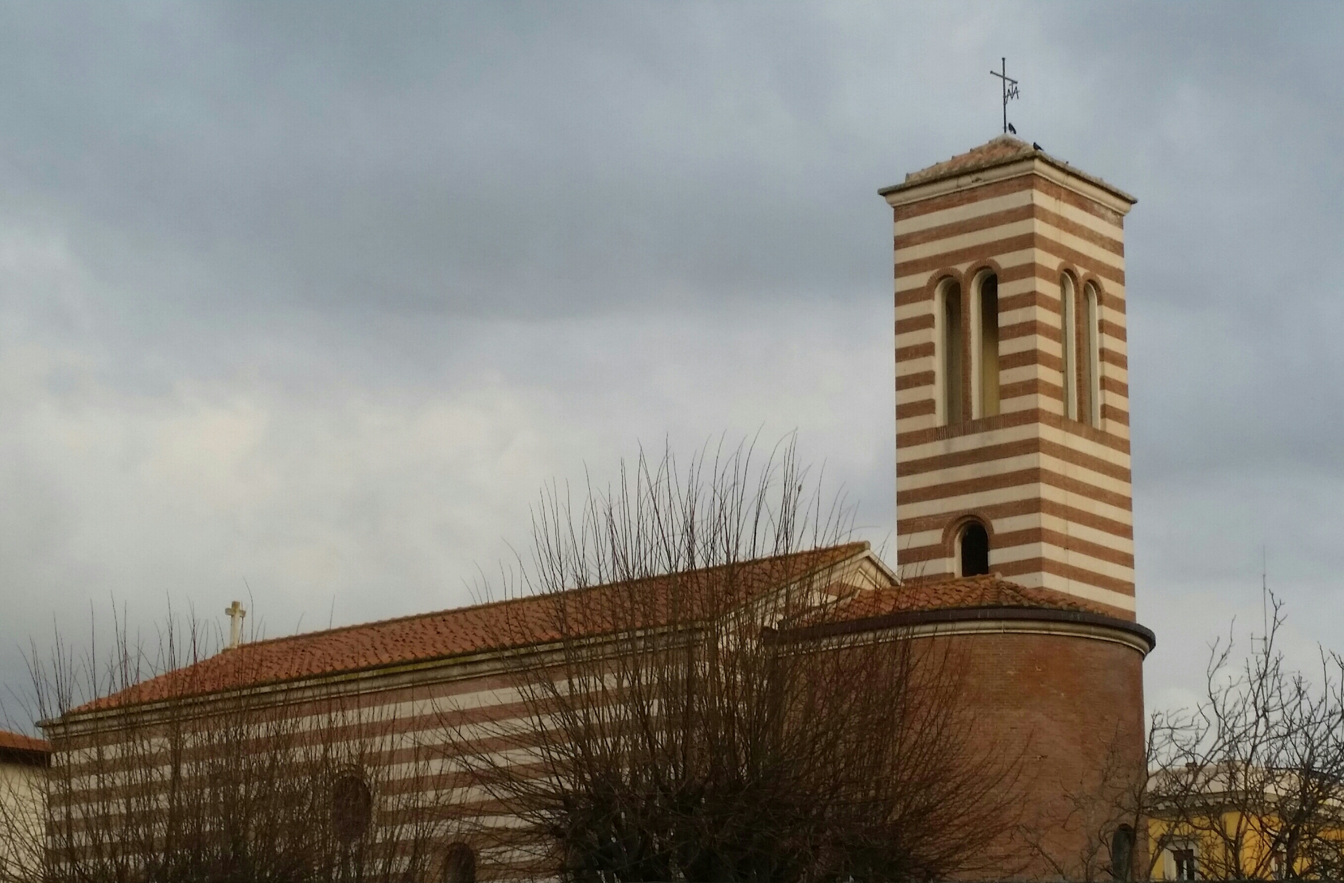 Medaglia Miracolosa, church in Grosseto